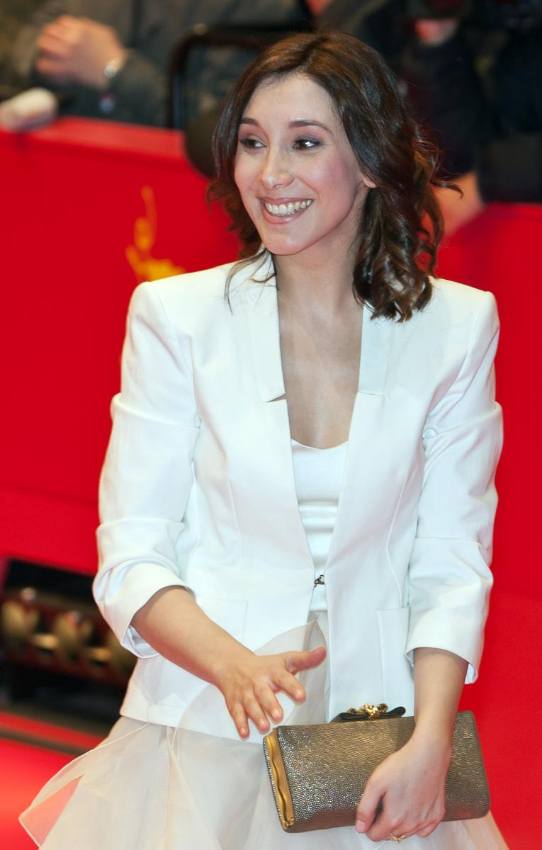 German actress Sibel Kekilli, Opening of the 62nd Berlin International Film Festival